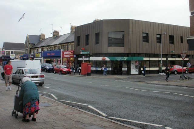 Post Office on the corner of Albany Road and Donald Street in Roath, Cardiff